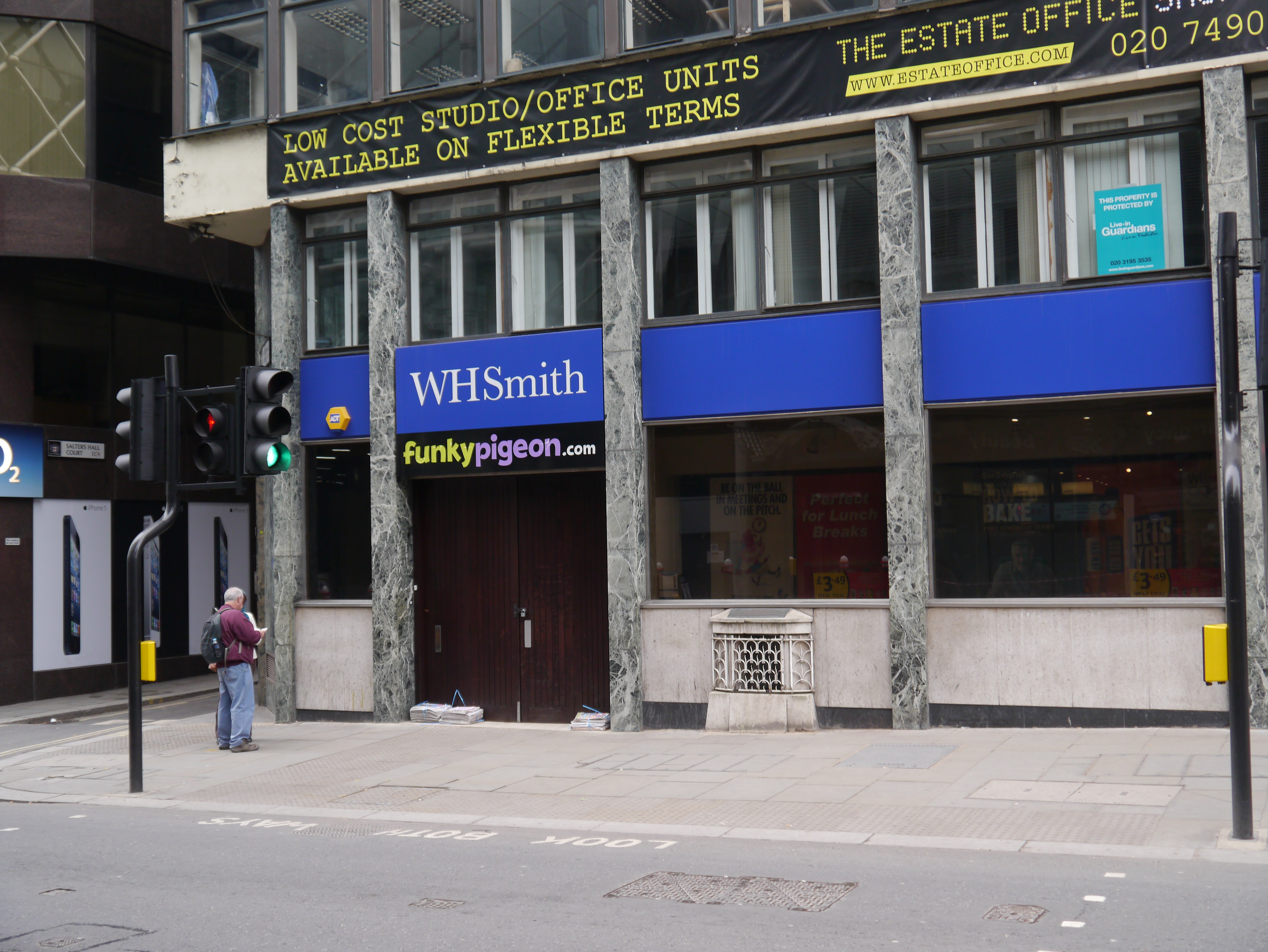 London Stone in wall of 111 Cannon Street, London EC4, currently (2012-13) a branch of WHSmith newsagents.